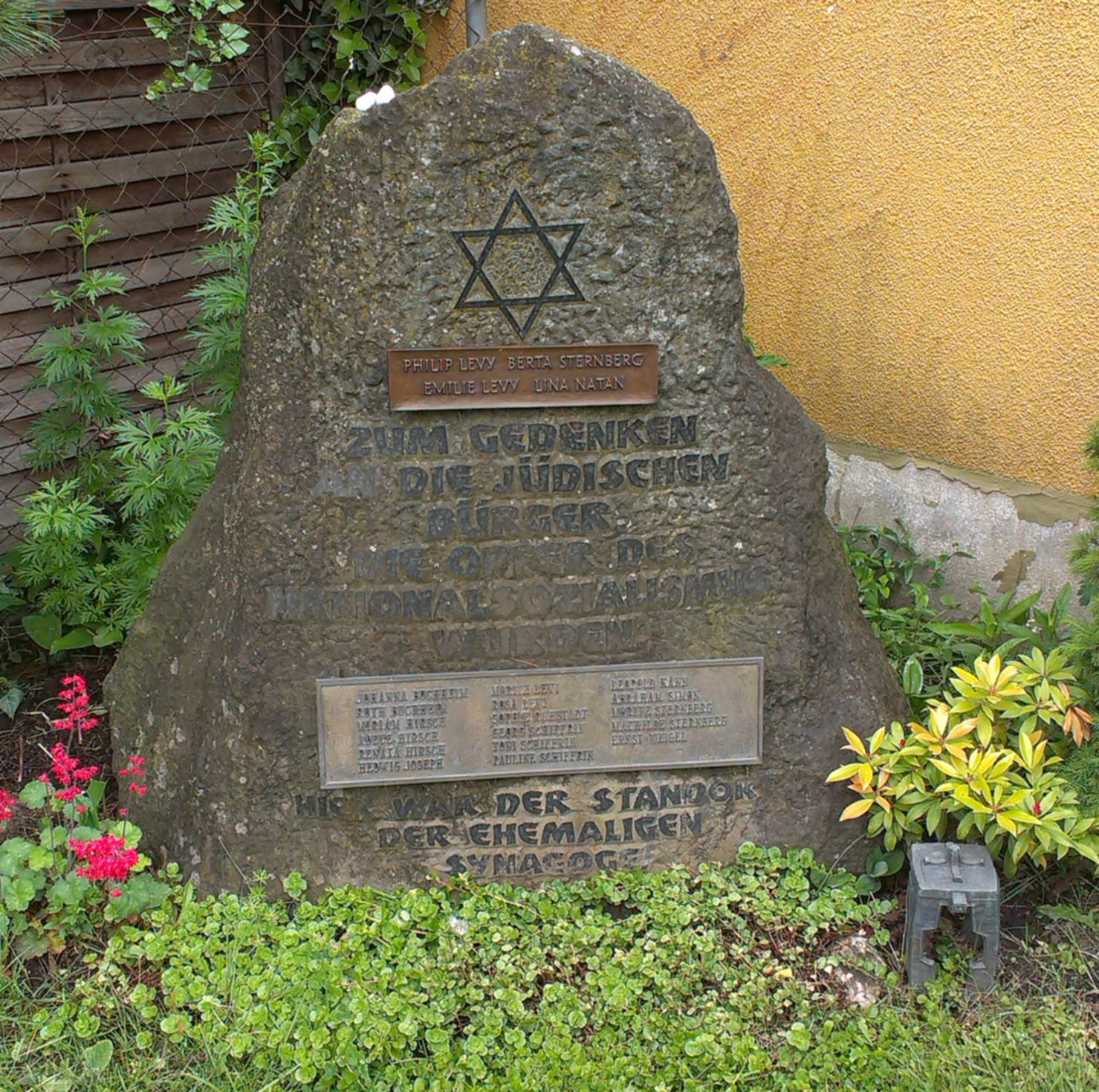 Monument of the former synagogue in Ehringhausen "In Memory of the Jewish citizens who were victims of National Socialism."